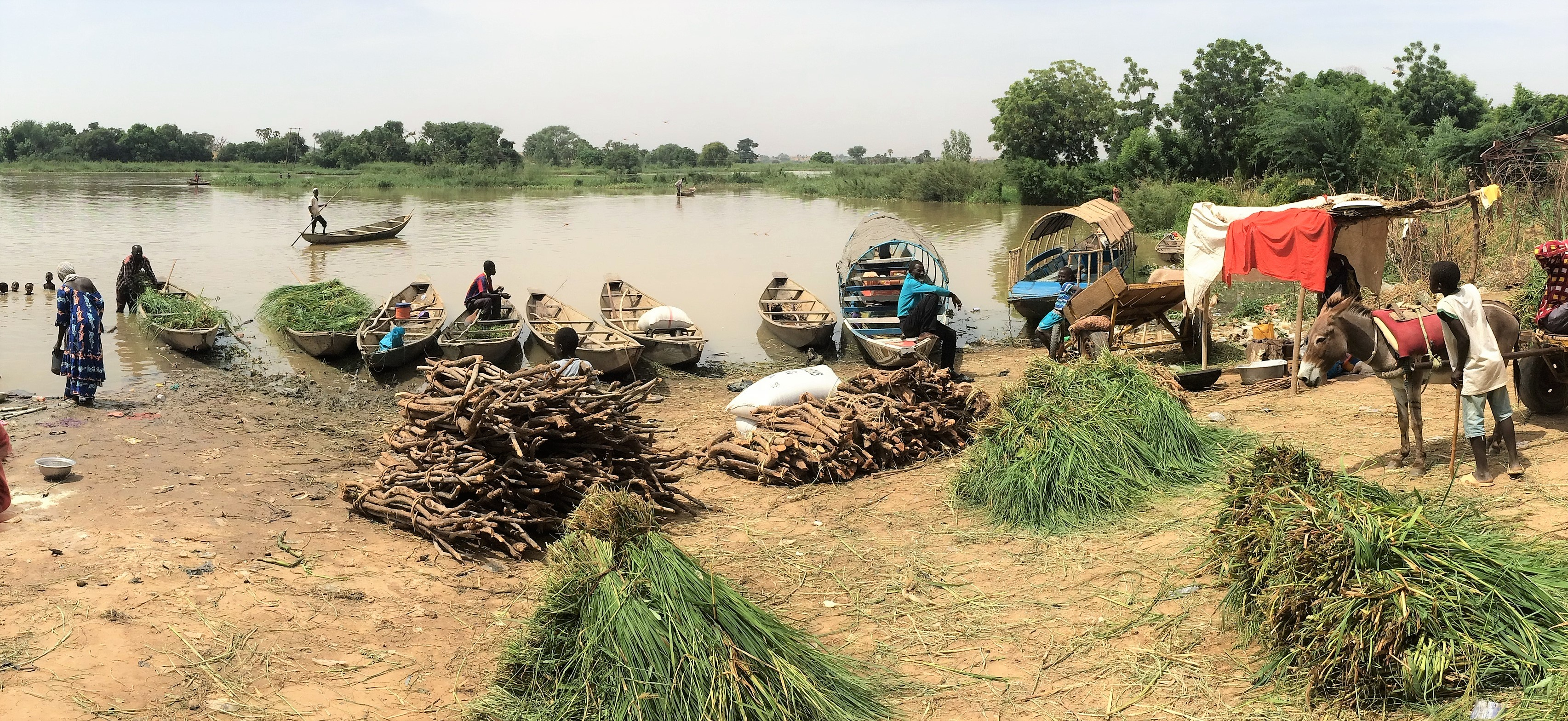 Niger river front scene with pirogues at Boubon, in Niger (Karma commune, Kollo department, Tillabéri region).